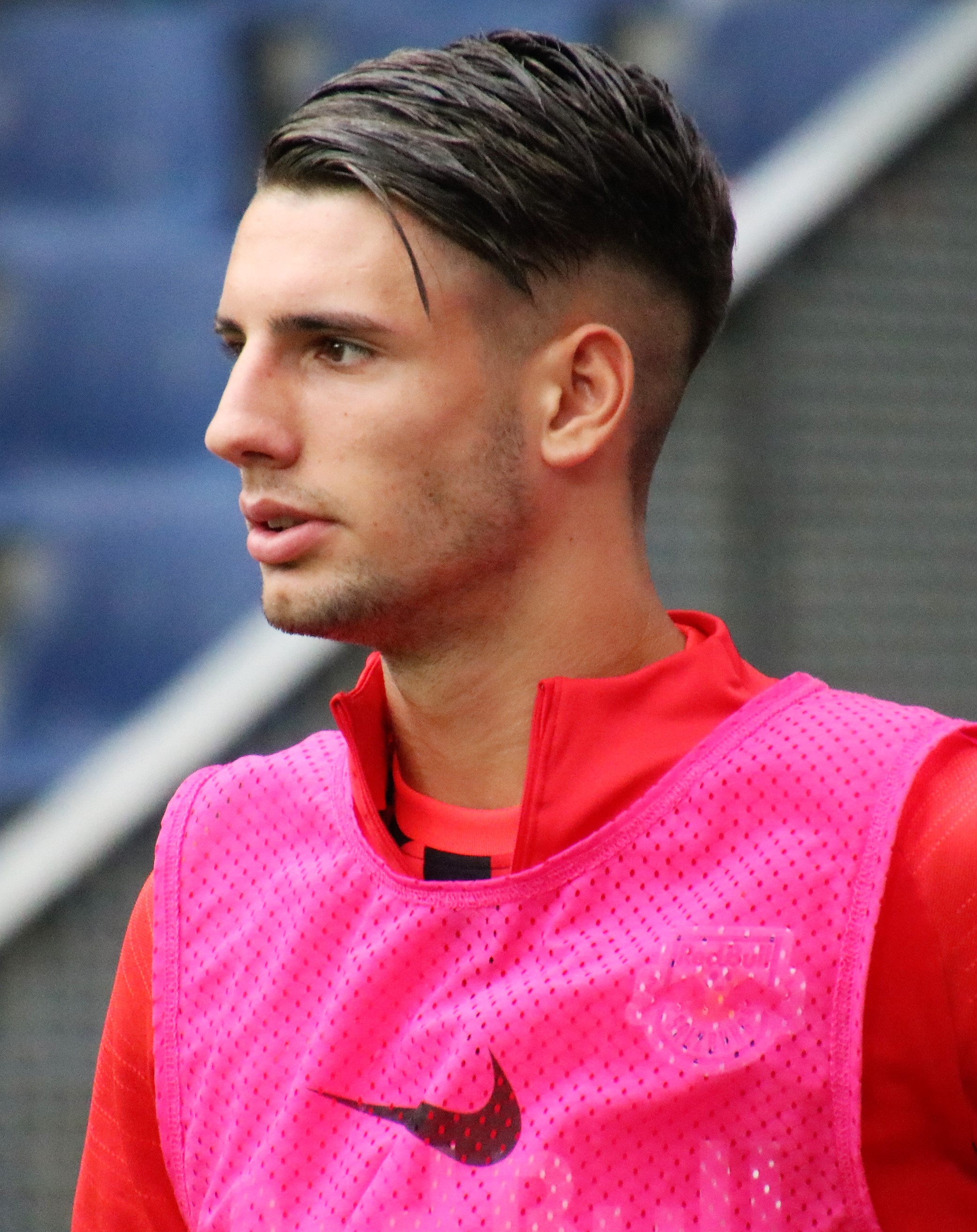 league match 3rd round Austrian Bundesliga